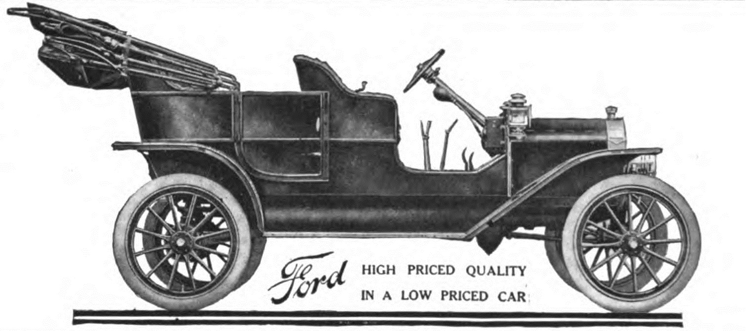 Depiction of 1908 Ford Model T Touring car, from Ford's full-page advertisement of the first Model T in the Oct. 1, 1908 issue of Life magazine, volume 52, page 365.